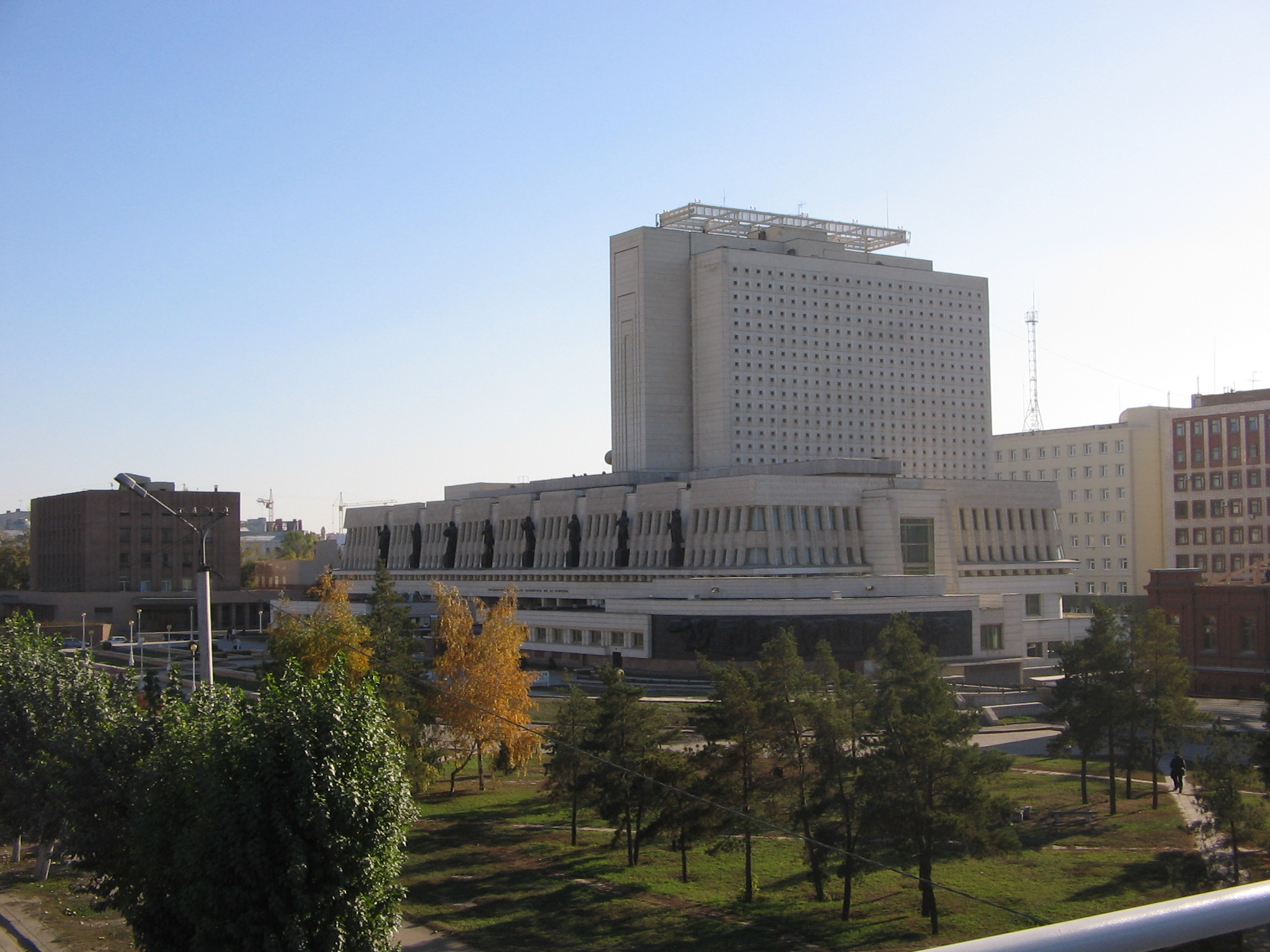 Pushkin Library, Omsk, Russia